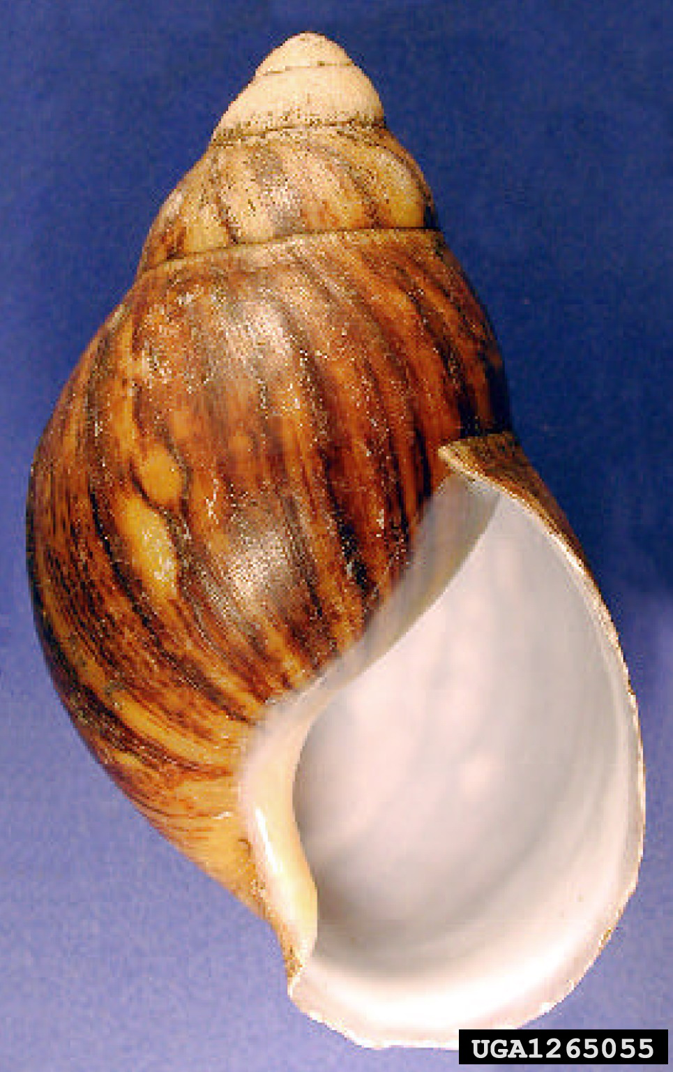 Photo of apertural view of the shell of Archachatina marginata